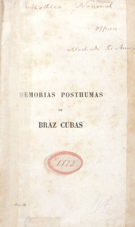 Cover page of a copy of The Posthumous Memoirs of Bras Cubas by Joaquim Maria Machado de Assis (1839 – 1908), dedicated by the author to the Brazilian National Library. The handwritten text reads "A Bibliotheca Nacional offerece Machado di Assis" and is reportedly Machado de Assis's own handwriting. Image source: [1], linked at [2], from the Brazilian National Library. Evidently, the book was published before 1908.